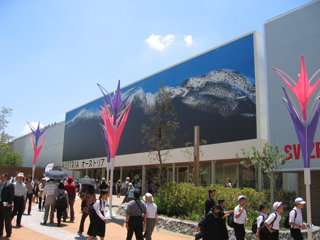 Façade of the Austrian pavillion at Expo 2005 (Nagoya, Aichi, Japan.)Austrian pavillion